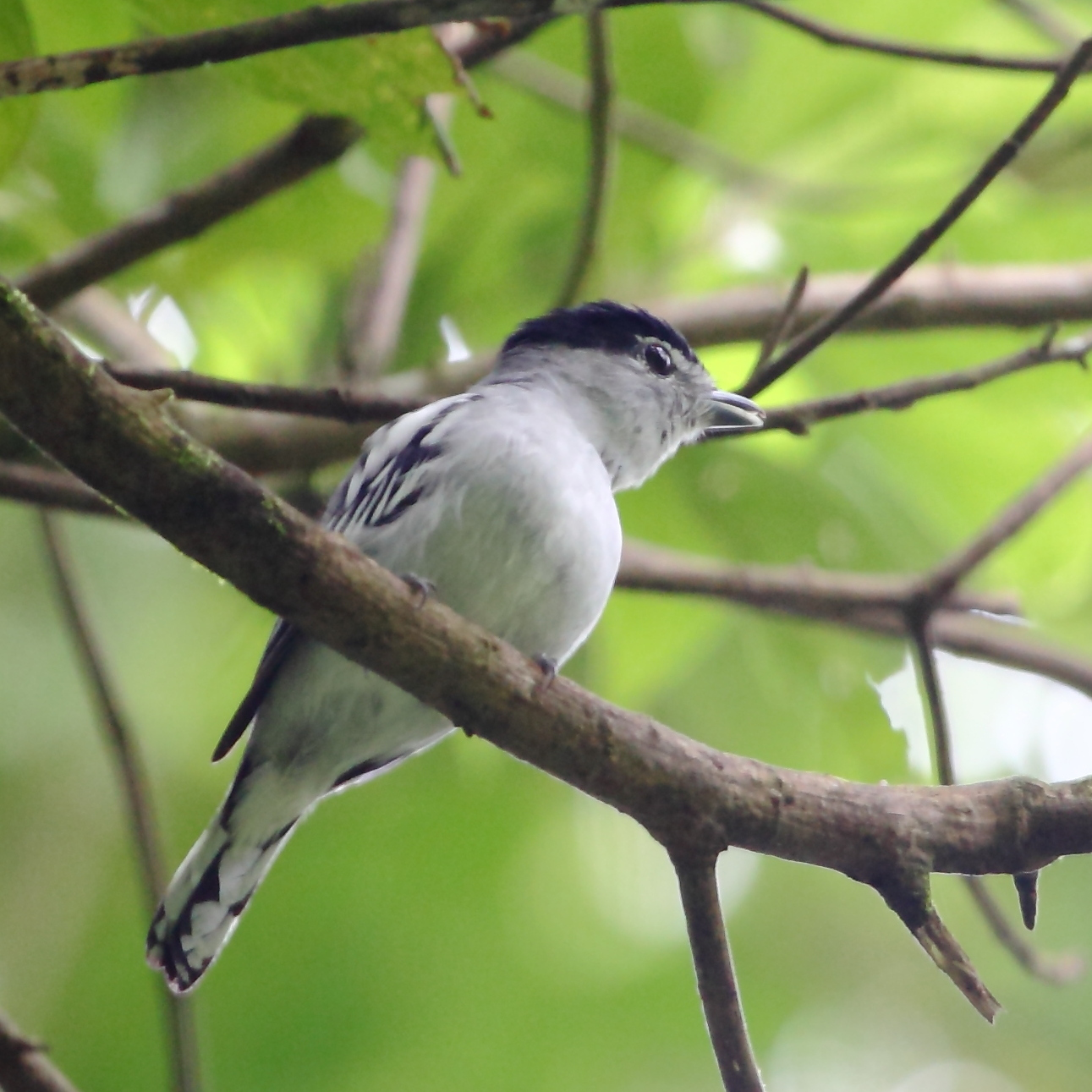 Black-capped Becard (male) at Restinga de Bertioga state park - SP - Brazil